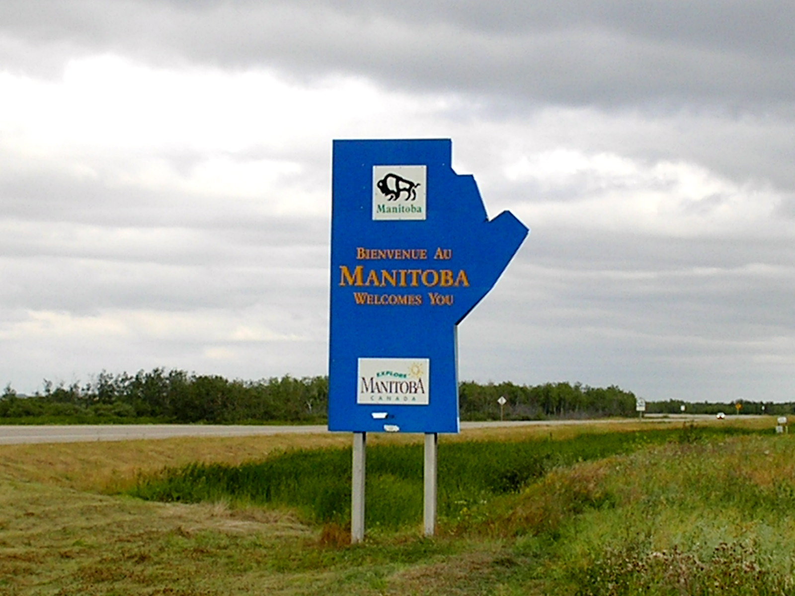 Affiche à la frontière Manitoba/Saskatchewan sur la transcanadienne 16 (Yellowhead highway), près de Harrowby, Manitoba. Photo prise le 17 août 2005. Sign at the Manitoba/Saskatchewan border on the Transcanada 16 (Yellowhead highway), near the village of Harrowby, Manitoba. Photo taken 17 August 2005.